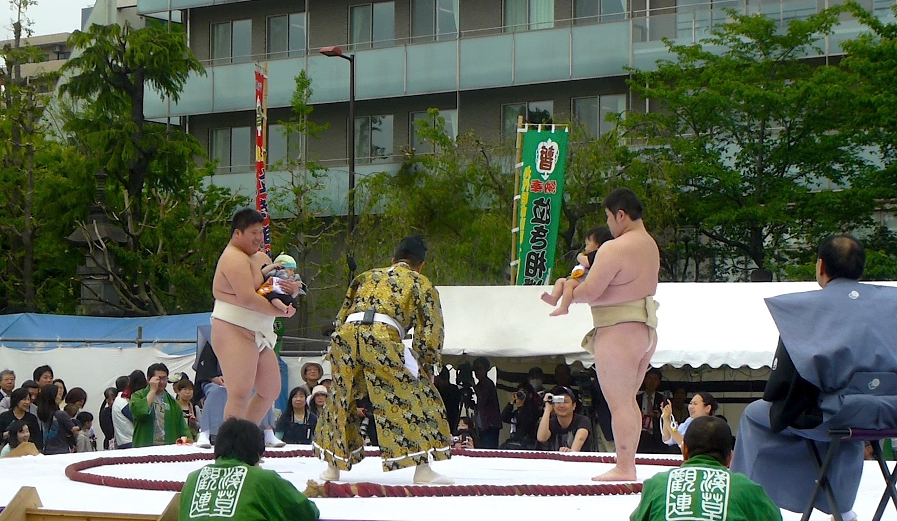 Sensoji temple "Crying Sumo" event